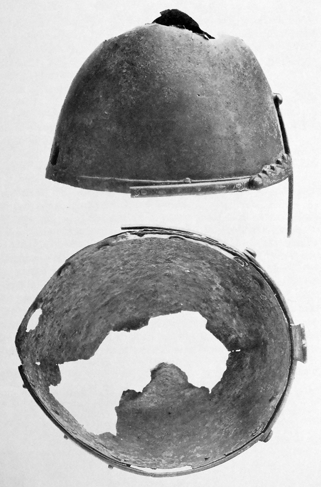 Helmet of St. Wenceslas